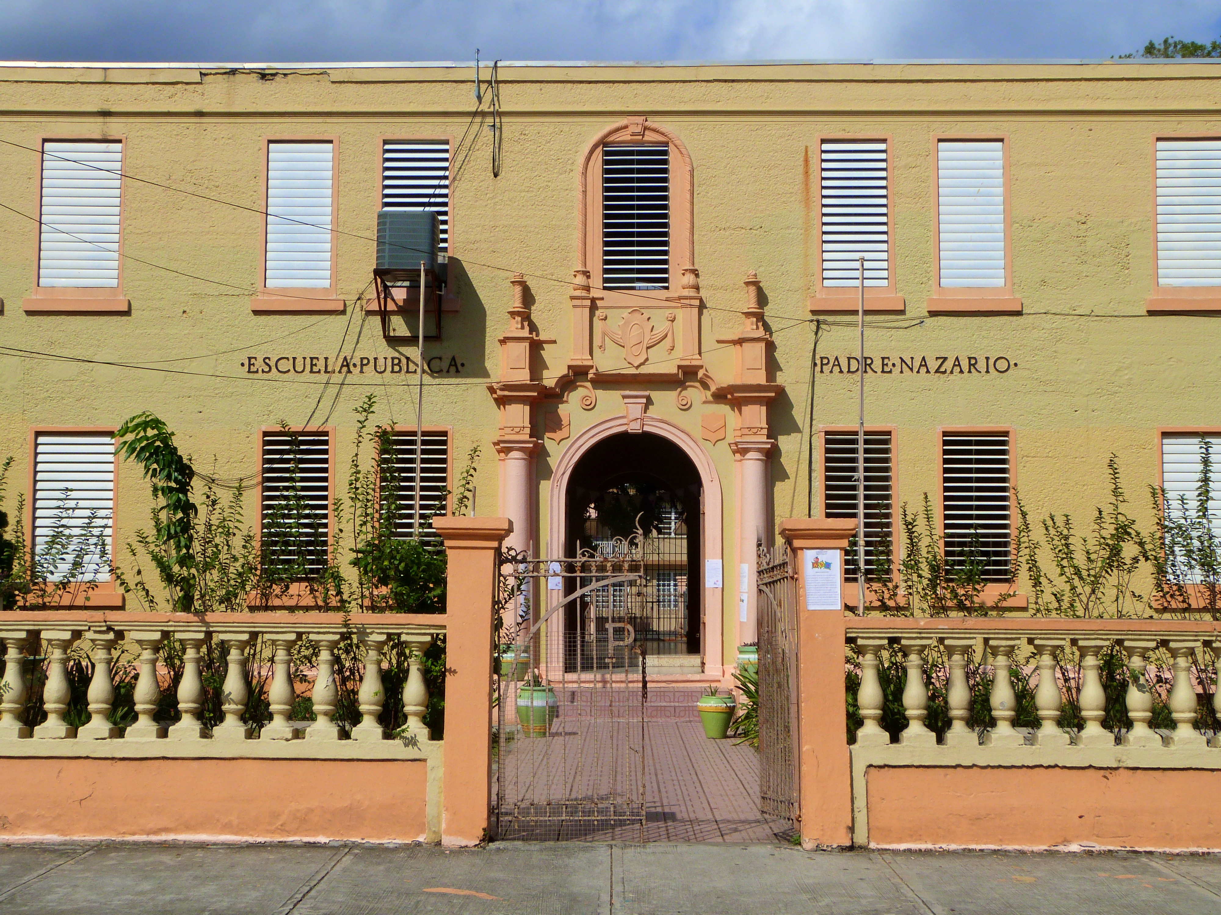 The historic Escuela Padre Nazario (built 1925–1926), located at Calle Concepción #4 in Guayanilla, Puerto Rico, is listed on the U.S. National Register of Historic Places.